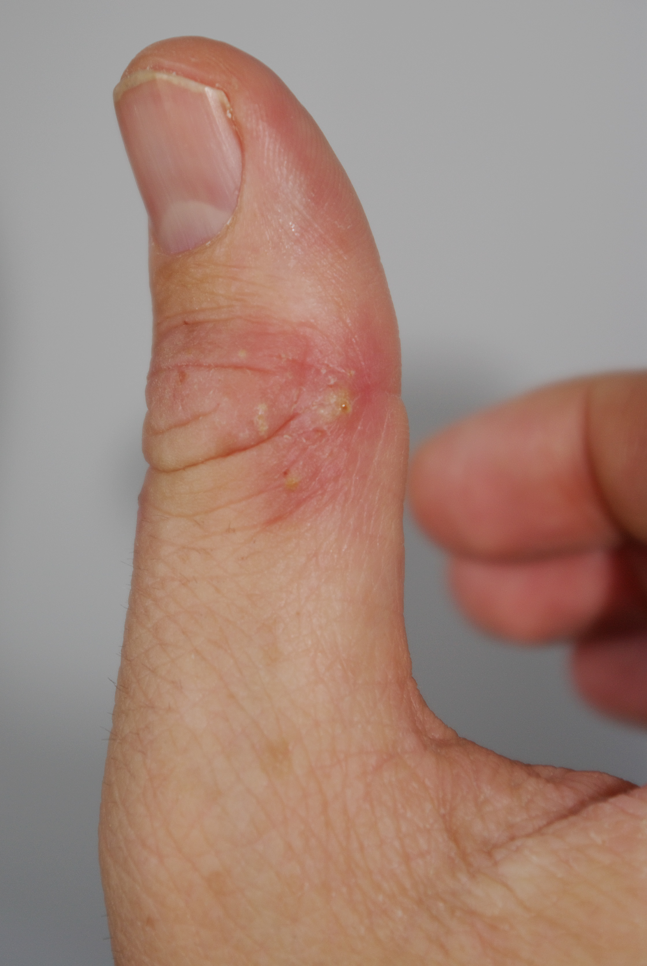 Infection of the skin as a complication of atopic dermatitis